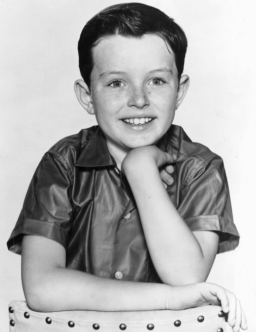 Publicity portrait of Jerry Mathers as Beaver Cleaver from the television program Leave It to Beaver.